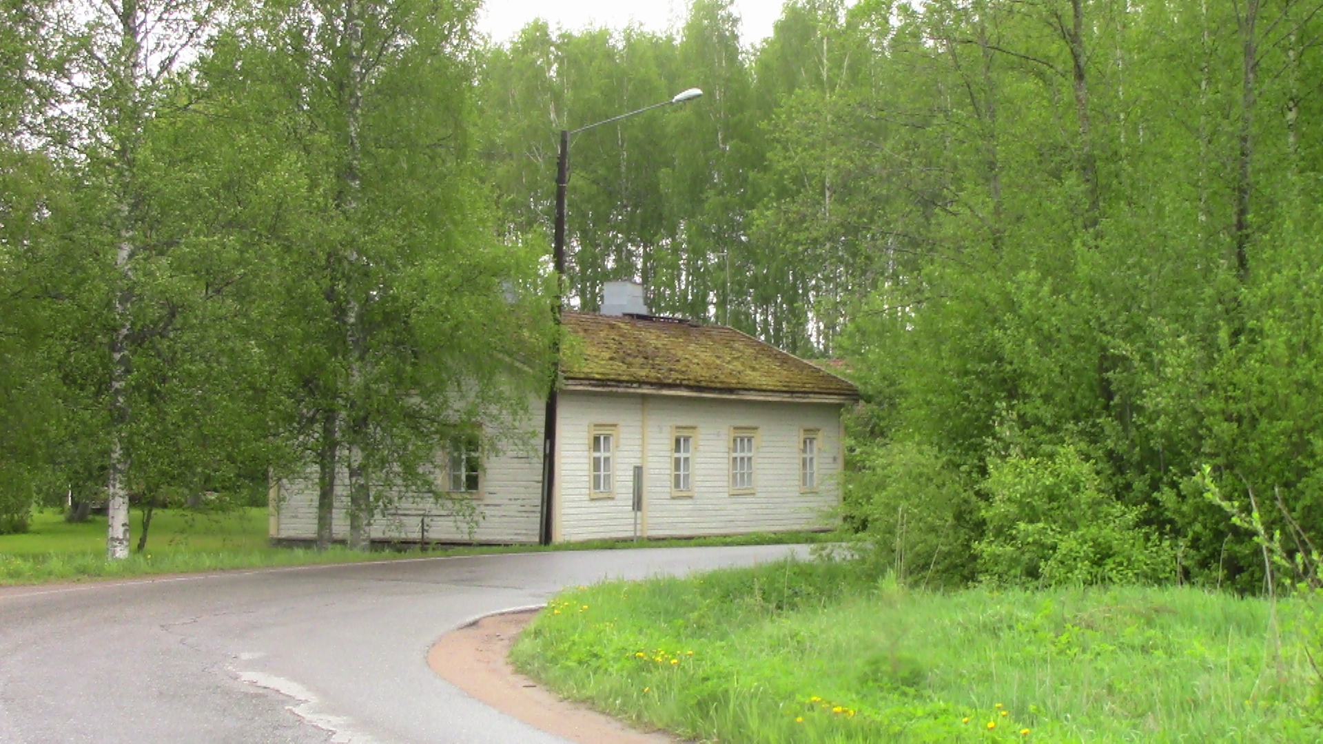 Finnish connecting road 3682 near Selänpää railway station in Kouvola. The road runs from Keisanmäki to Selänpää.